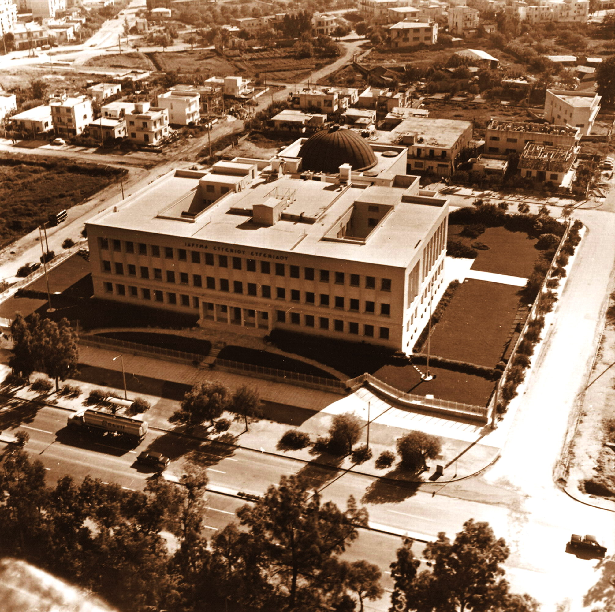 The Eugenides Foundation building on Sygrou Avenue, Athens, Greece, completed in 1966.